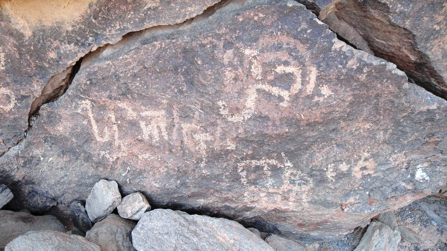 نقش ثمودي في غار مطيوي